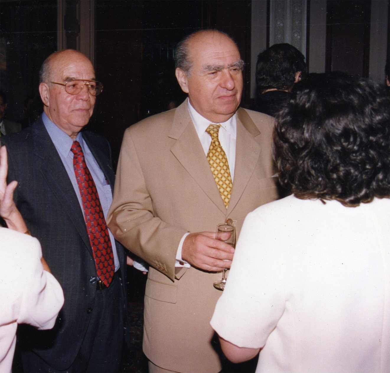 con presidente